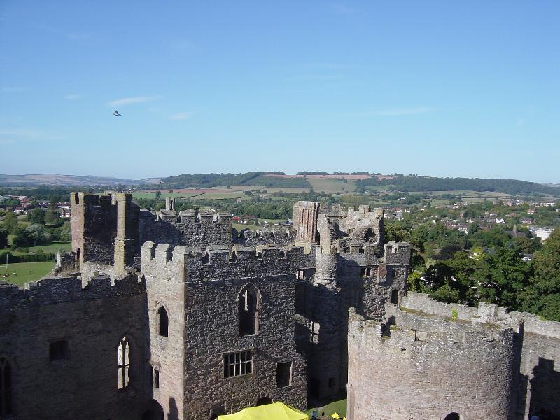 Inside Ludlow Castle, in Ludlow